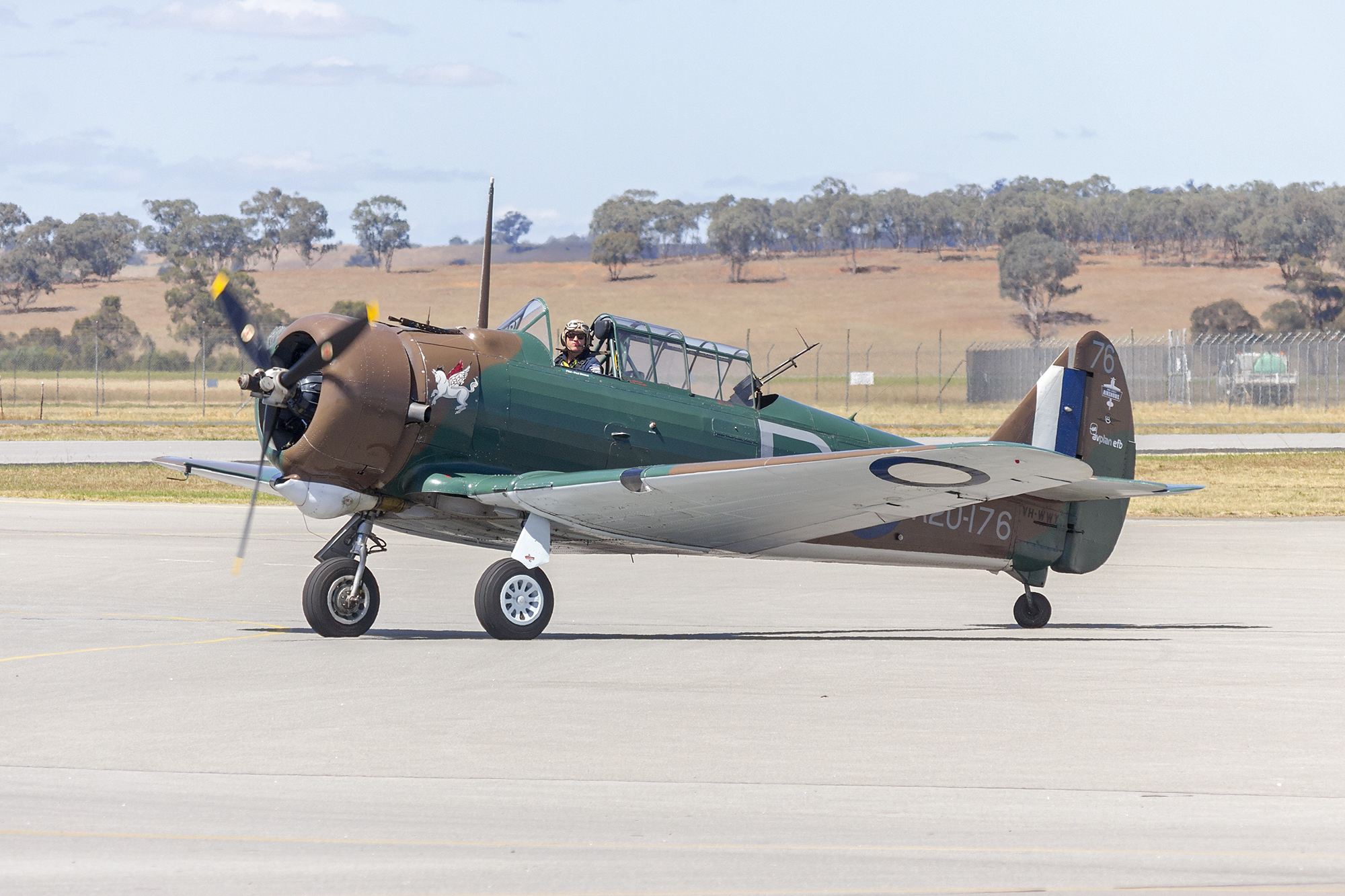 Paul Bennet Airshows (VH-WWY) CAC Wirraway taxiing at Wagga Wagga Airport.